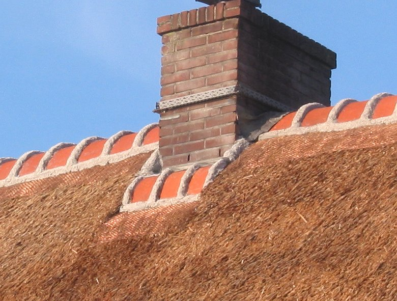 Thatched roof with rooftiles